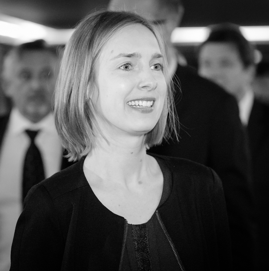 Iselin Nybø at Governor Øystein Olsen's annual address in February 2018